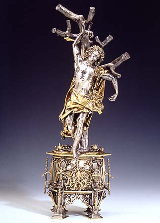 Reliquary of St Sebastian Probably designed by Hans Holbein (1460-1465 - died 1534) Probably Augsburg, Germany 1497 Silver, parcel-gilt, hammered, cast and engraved; set with glass, pearls, sapphires and rubies Height 49.5 cm V&A Museum No. M.27-2001